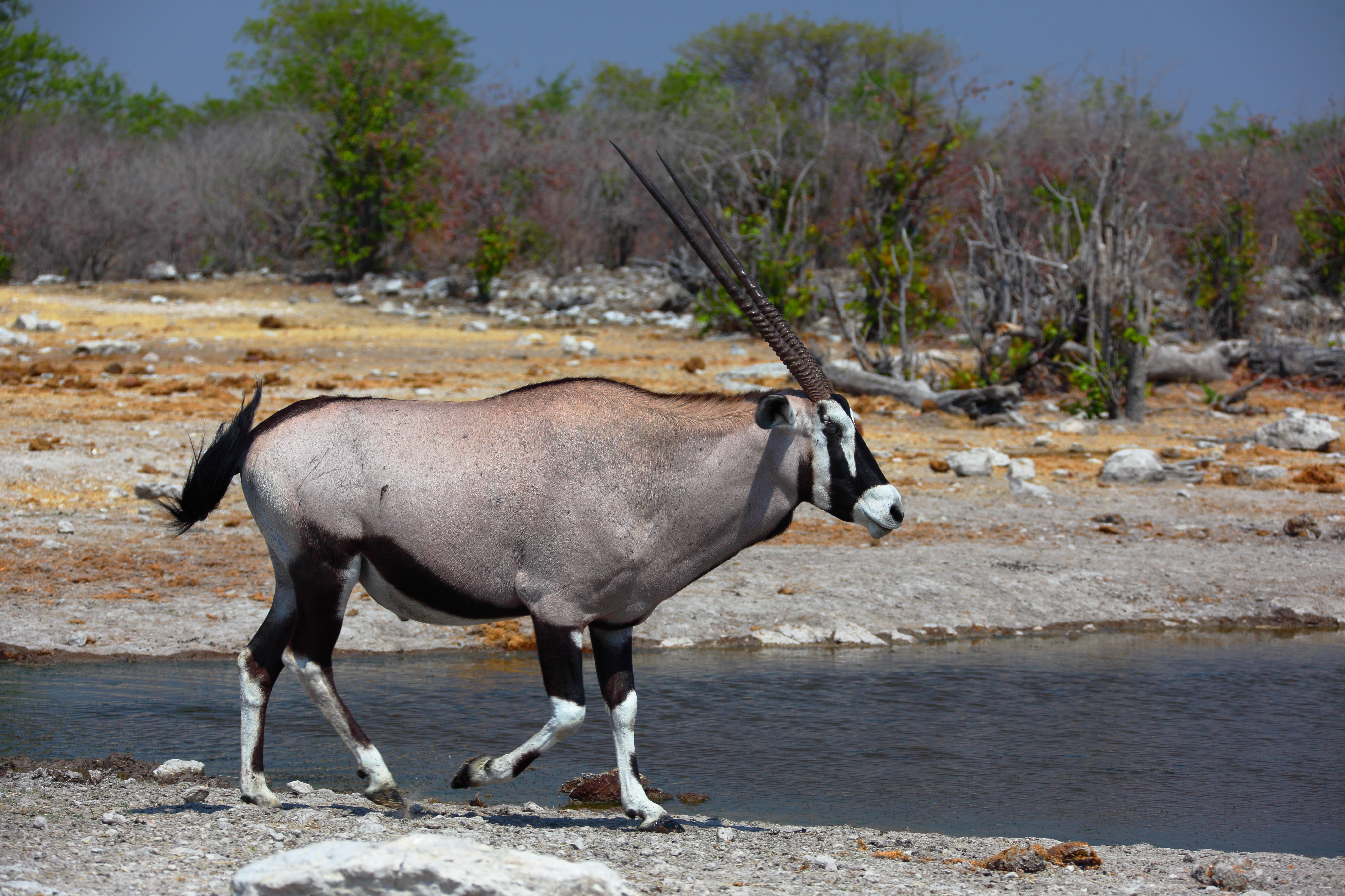 Gemsbok, male (Oryx gazella) at water hole named "Kalkheuwel Bore Hole" in Etosha National Park, Namibia.